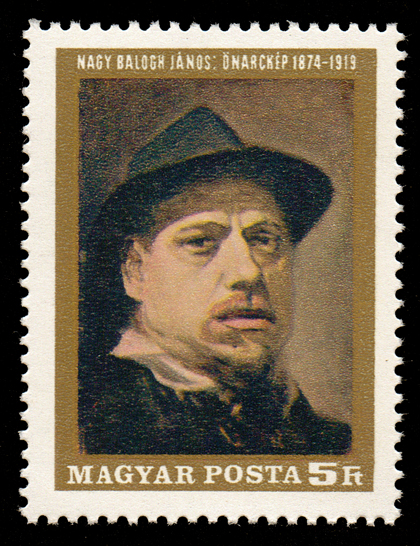 Janos Balogh Nagy (1874-1919), painter Denomination: 5 Forint